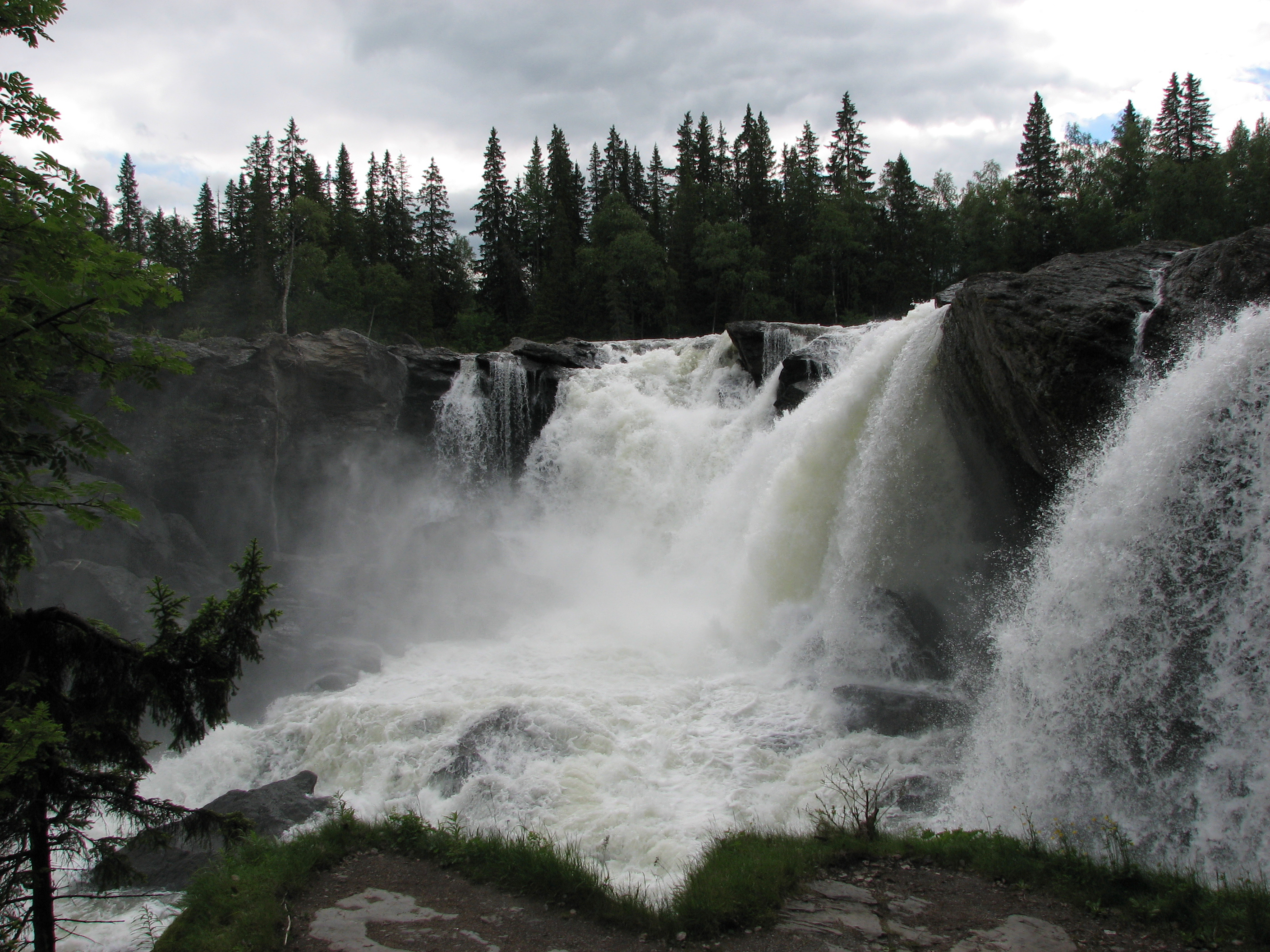 Ristafallet